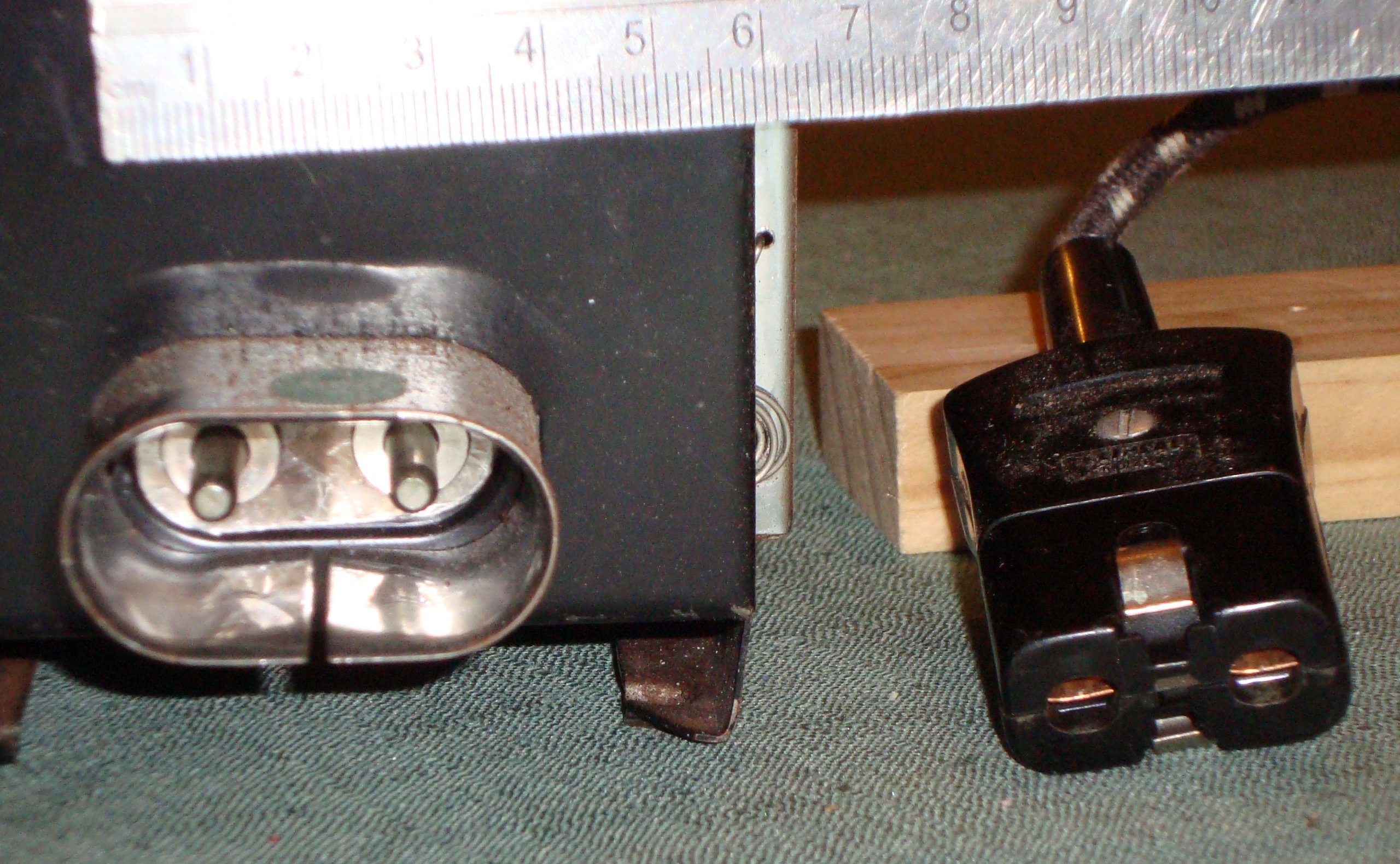 Appliance plug Jasen betts (talk) 11:24, 11 October 2008 (UTC) This image shows the socket and plug for the power lead on a Kambrook toaster (model K14) the plug was manufactured by clipsal (No.464). the numbers on the scale are cm, the small divisions mm